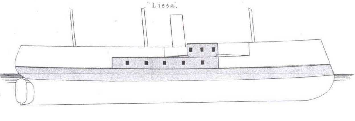 Line-drawing of Austrian Ironclad Lissa. From Brassey's Naval Annual 1888.